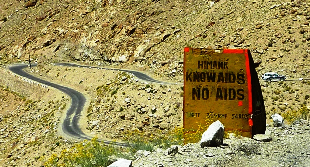 I took this photo on my way through the Nubra Valley, Ladakh in 2010